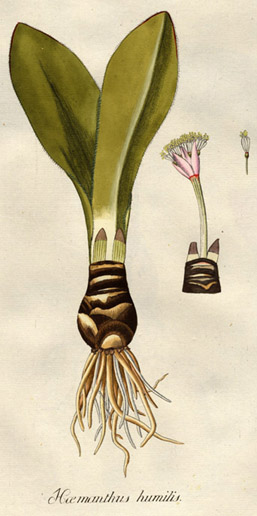 Haemanthus humilis Jacq.